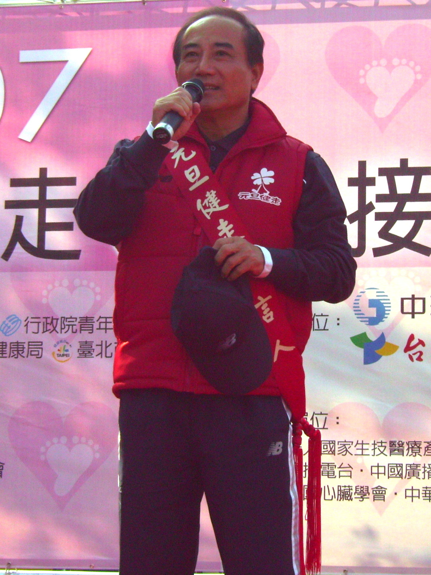 Speaker of the Legislature Wang Jing-ping participated 2007 New Year Hope Walking.